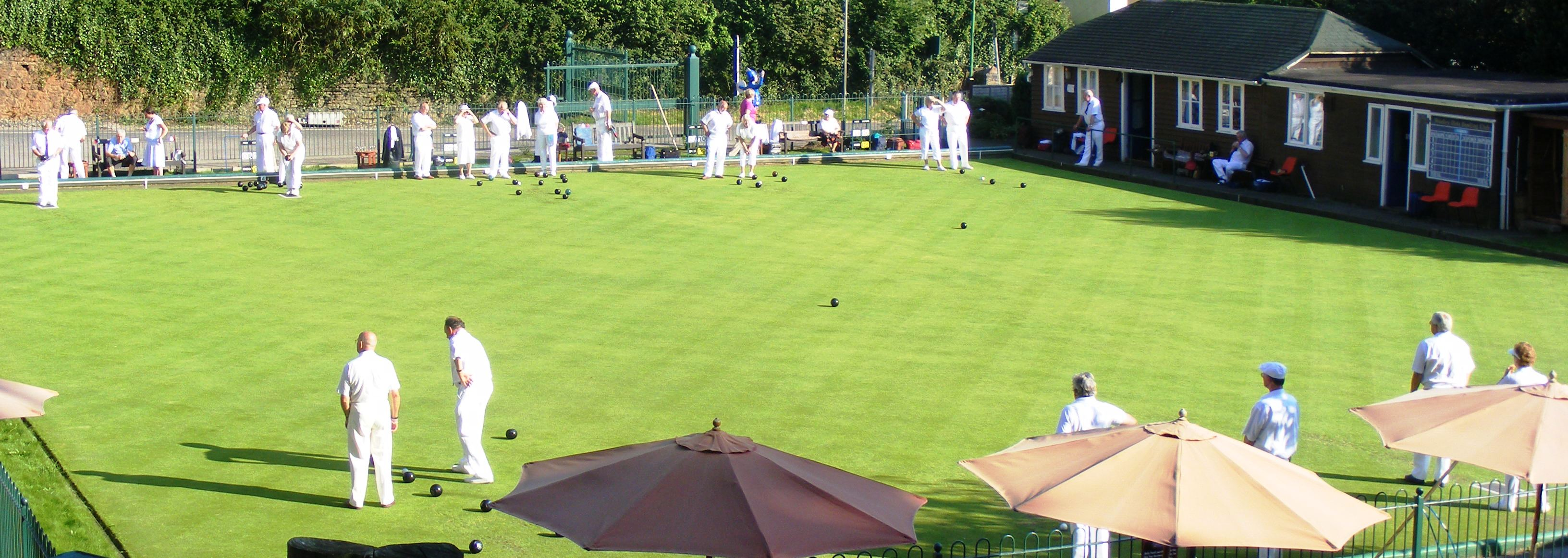 Bowls match in progress at Wookey Hole